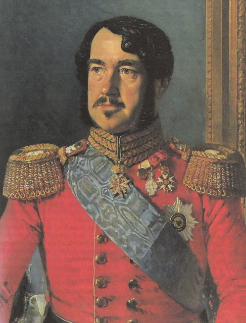 Prince William of Hesse (1787-1867). Early 19th century painting.